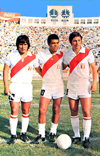 Hugo Sotil, Teofilo Cubillas, and Roberto Challe prior to a home match (Lima) with the Peru national football team against Chile in 1973.